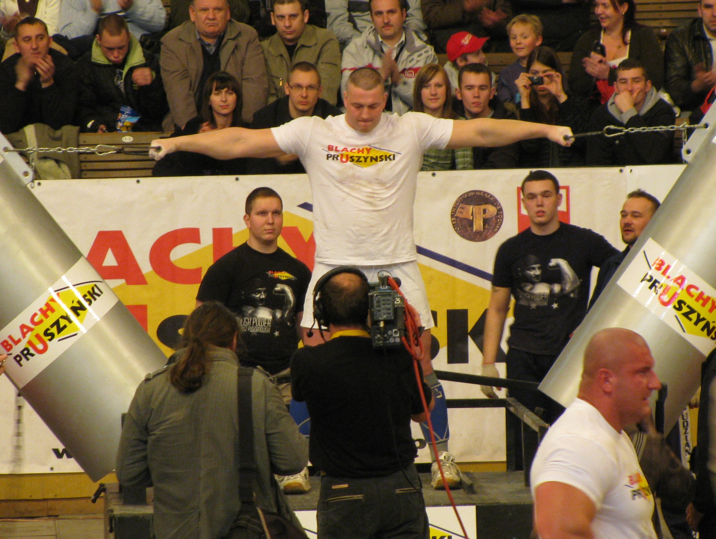 Tomasz Nowotniak - a strength athlete from Poland at Hercules Hold.